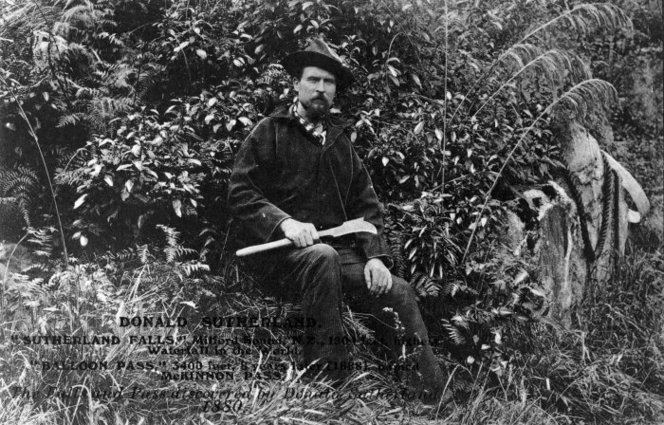 Donald Sutherland, circa 1878. Sailor, soldier, gold prospector, settler, and first European discoverer of Sutherland Falls, second highest falls of New Zealand. Photographer unidentified. Ref: 1/2-038689-F. Alexander Turnbull Library, Wellington, New Zealand. Image not restricted